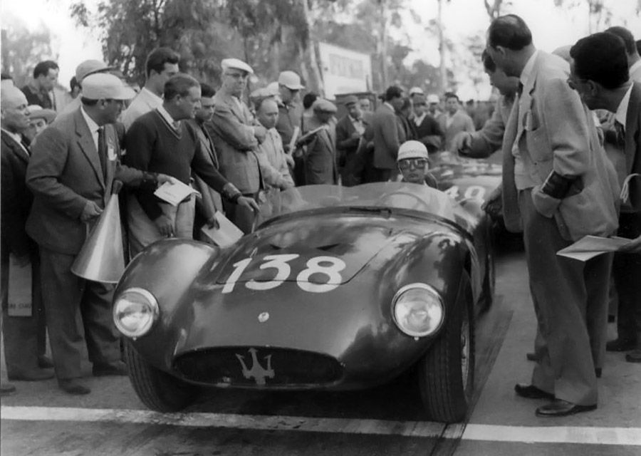 1954 Maserati A6GCS Fantuzzi s/n 2064 with Nino Vaccarella (we think) behind the steering weal. Or maybe Giuseppe Alotta, who had just purchased the car This is at Targa Florio on Sicilia on 24 May 1959. They ended in 10th place.[1]